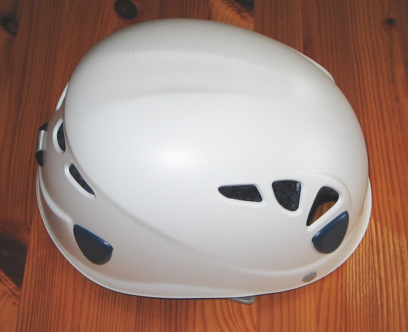 A Petzel Elios climbing helmet for caving and mountaineering.